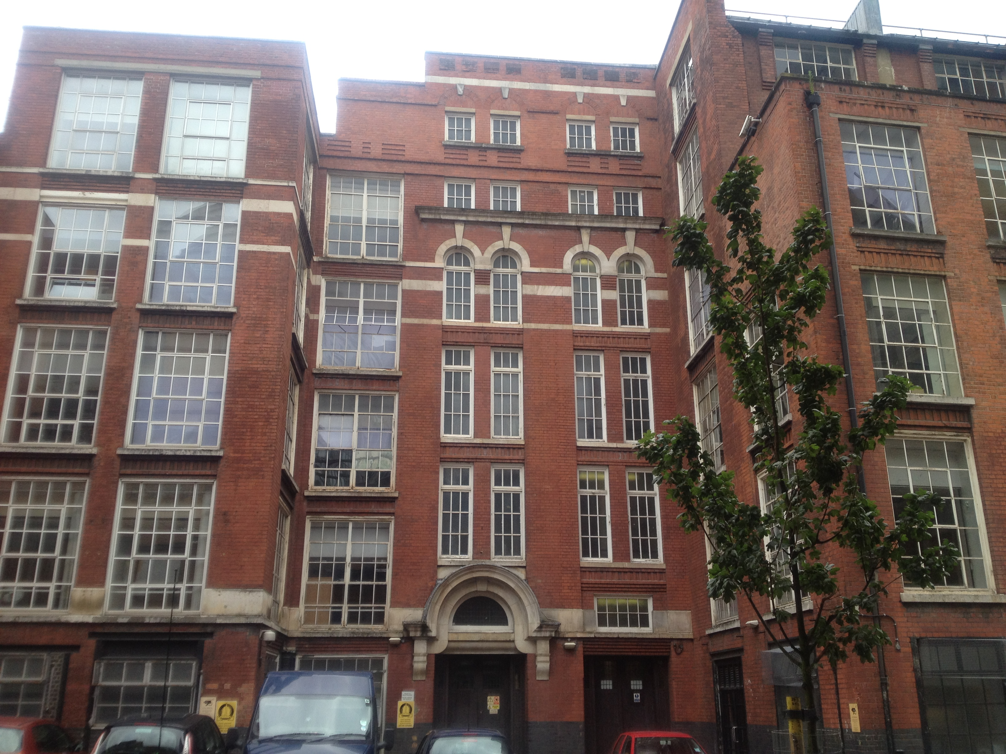 Taken by iPhone 4S Camera